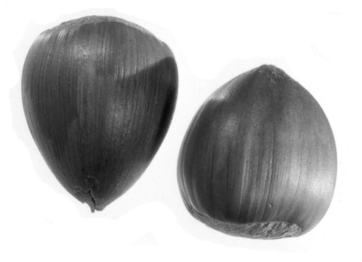 Chrysolepis sempervirens nuts